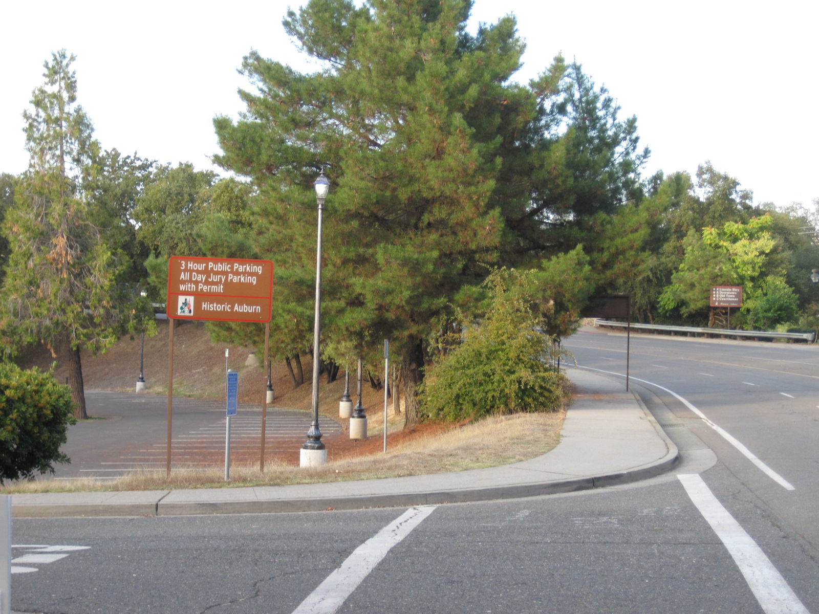 Street entrance to Bicentennial Park, Auburn, CA, USA near the Clark Ashton Smith memorial, as seen when approaching from the south.